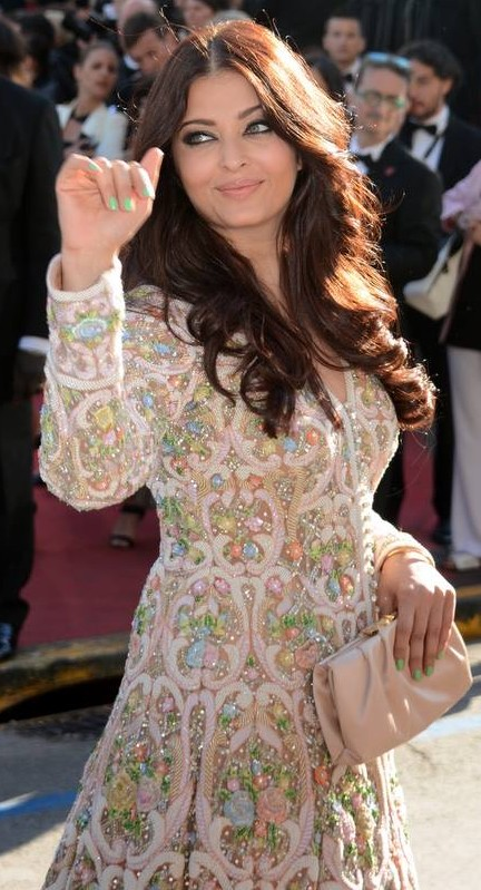 Aishwarya Rai at the Cannes Film Festival